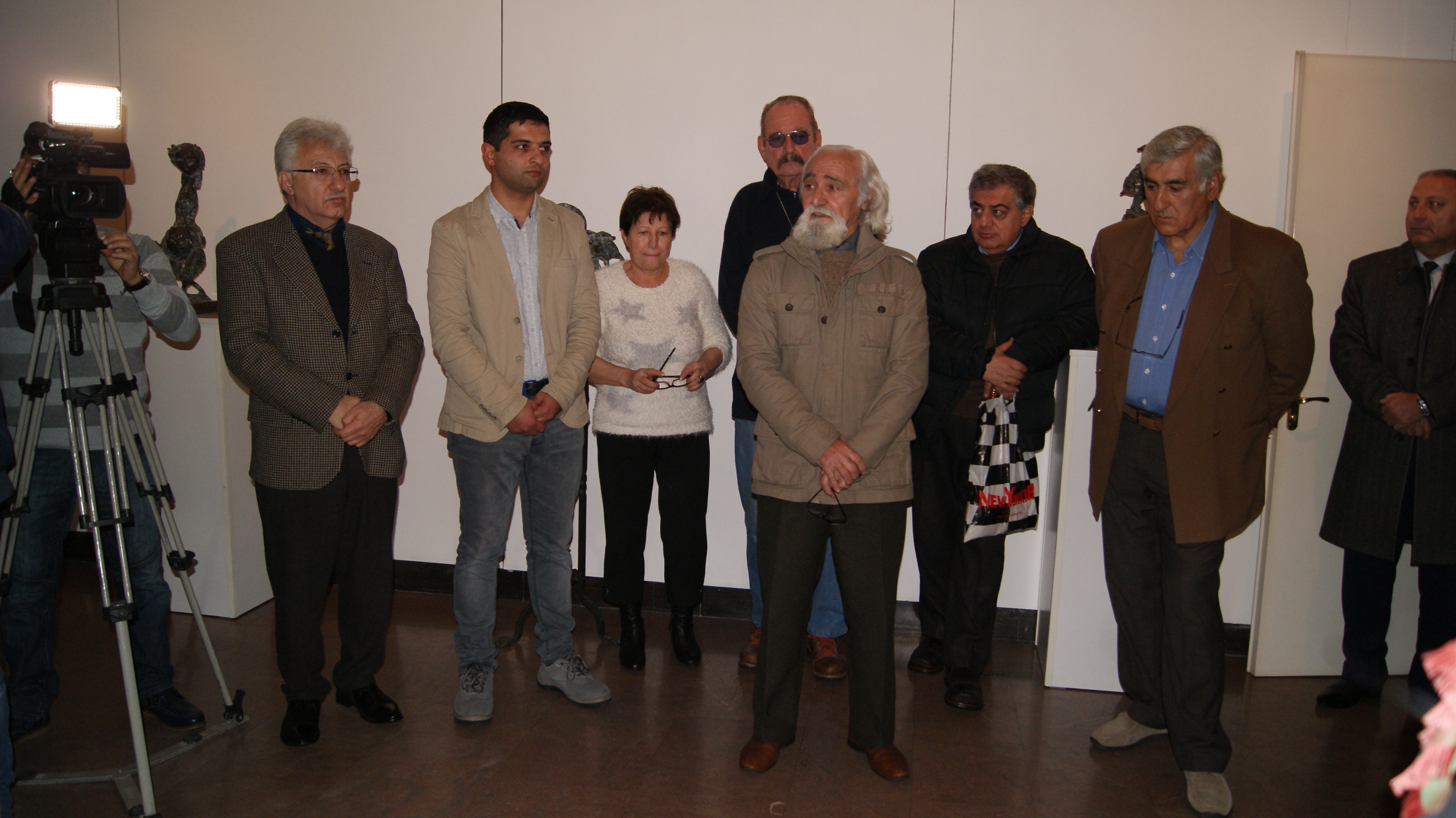 Արման Համբարձումյանի «Առասպելներ» ցուցահանդեսը Հովհաննես Շարամբեյանի անվան ժողովրդական ստեղծագործության կենտրոնում Arman Hambardzumyan's Exhibition "Myths" in Folk Arts Center